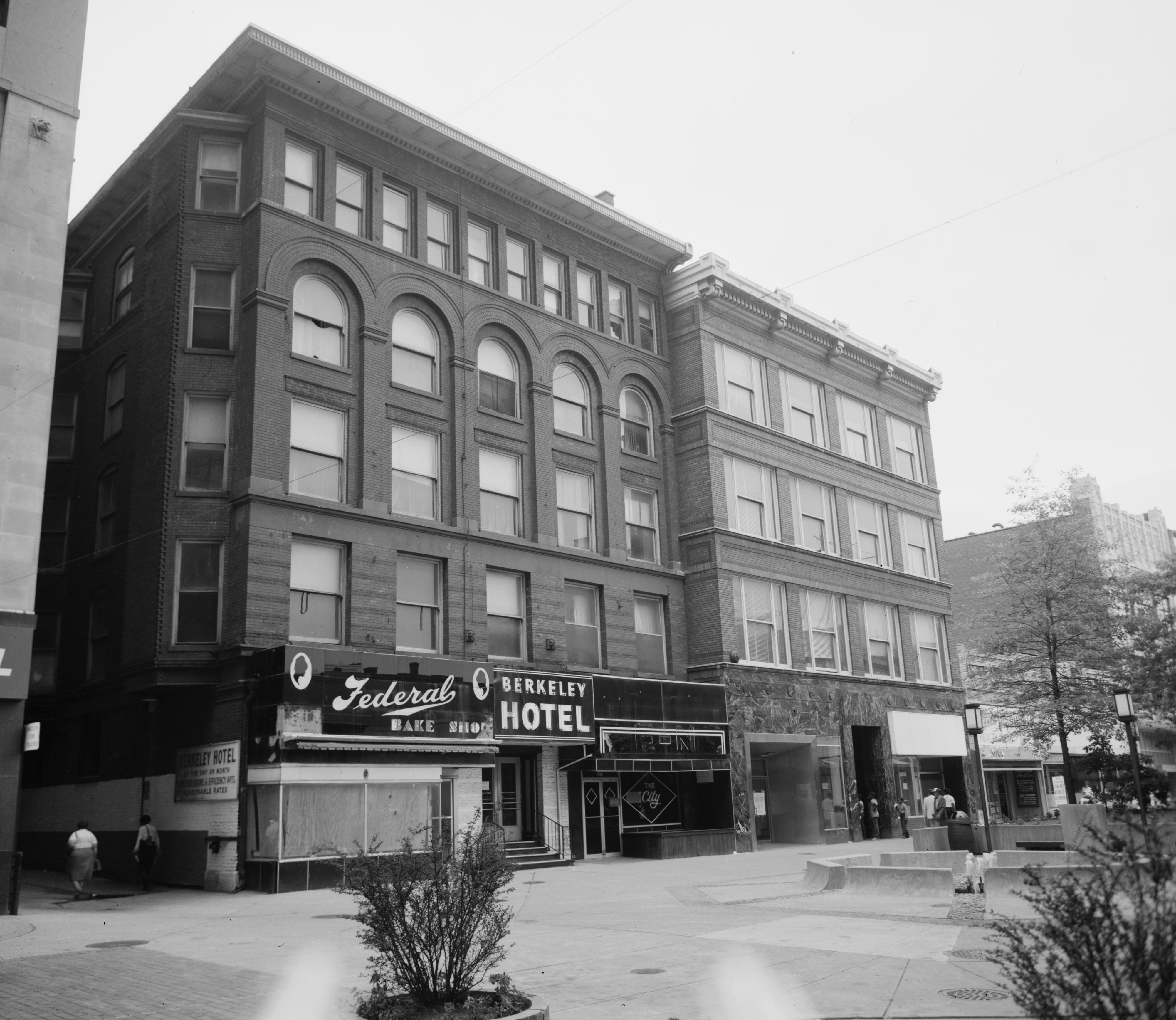 Front of the former Rossmore Apartment House, located at 664 River City Mall in Louisville, Kentucky, United States. Built in 1893, it is listed on the National Register of Historic Places.